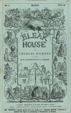 Cover of serial, "Bleak House" by Charles Dickens